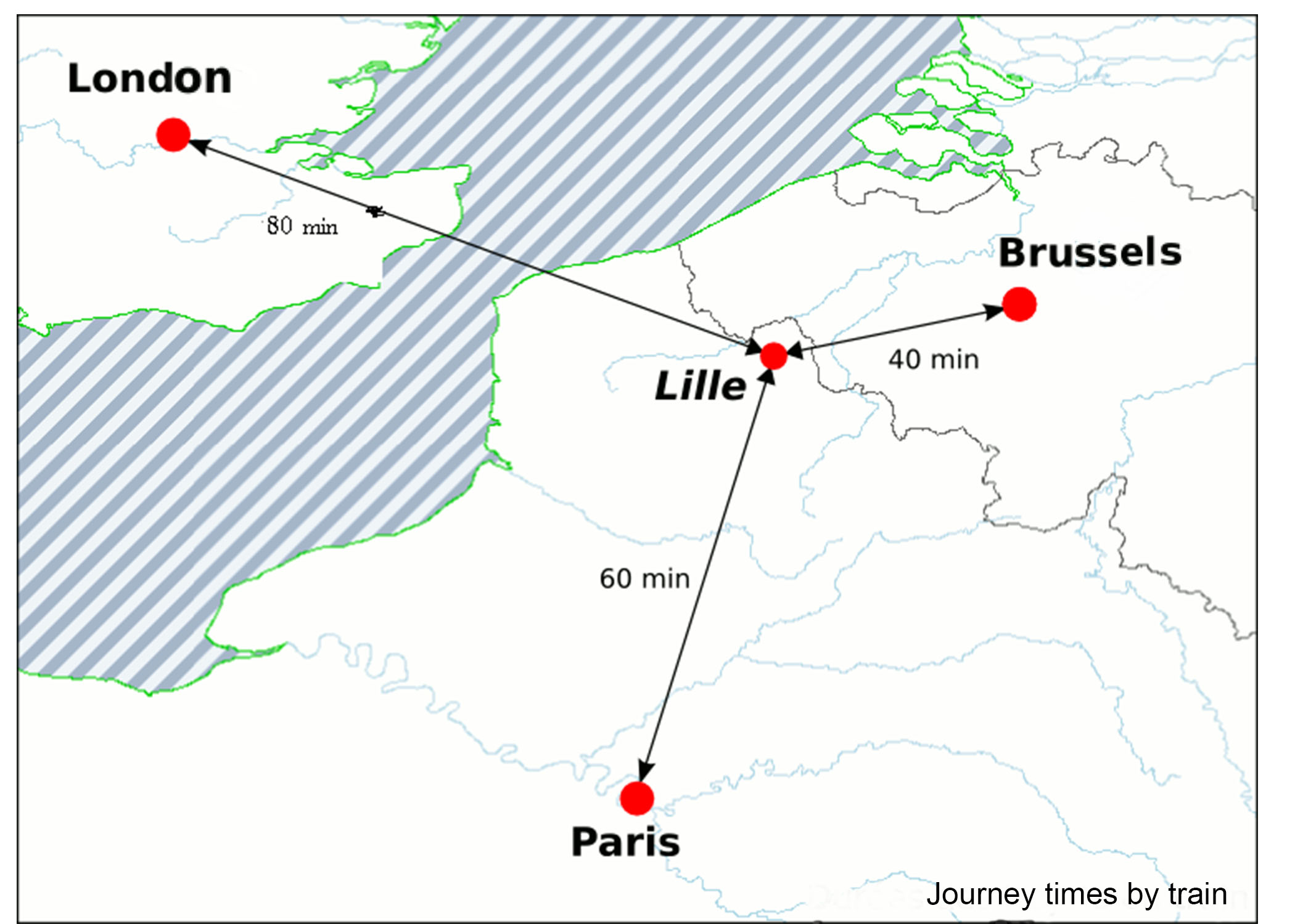 Map showing train travel times between Paris, London and Brussels